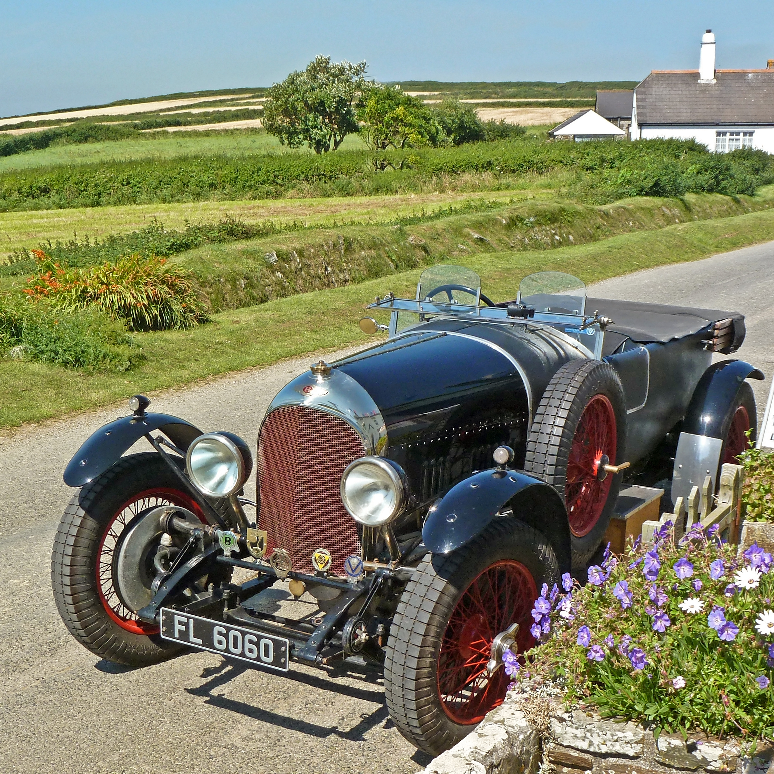 1927 Bentley 3-Litre (#BL1616) Bentley at Gunwalloe Chassis No BL1616 wheelbase 9'9½" Engine No BL1614 high compression engine, twin SU carburettors Registration FL 6060 Delivered May 1927 4-seater body by Vanden Plas source of info